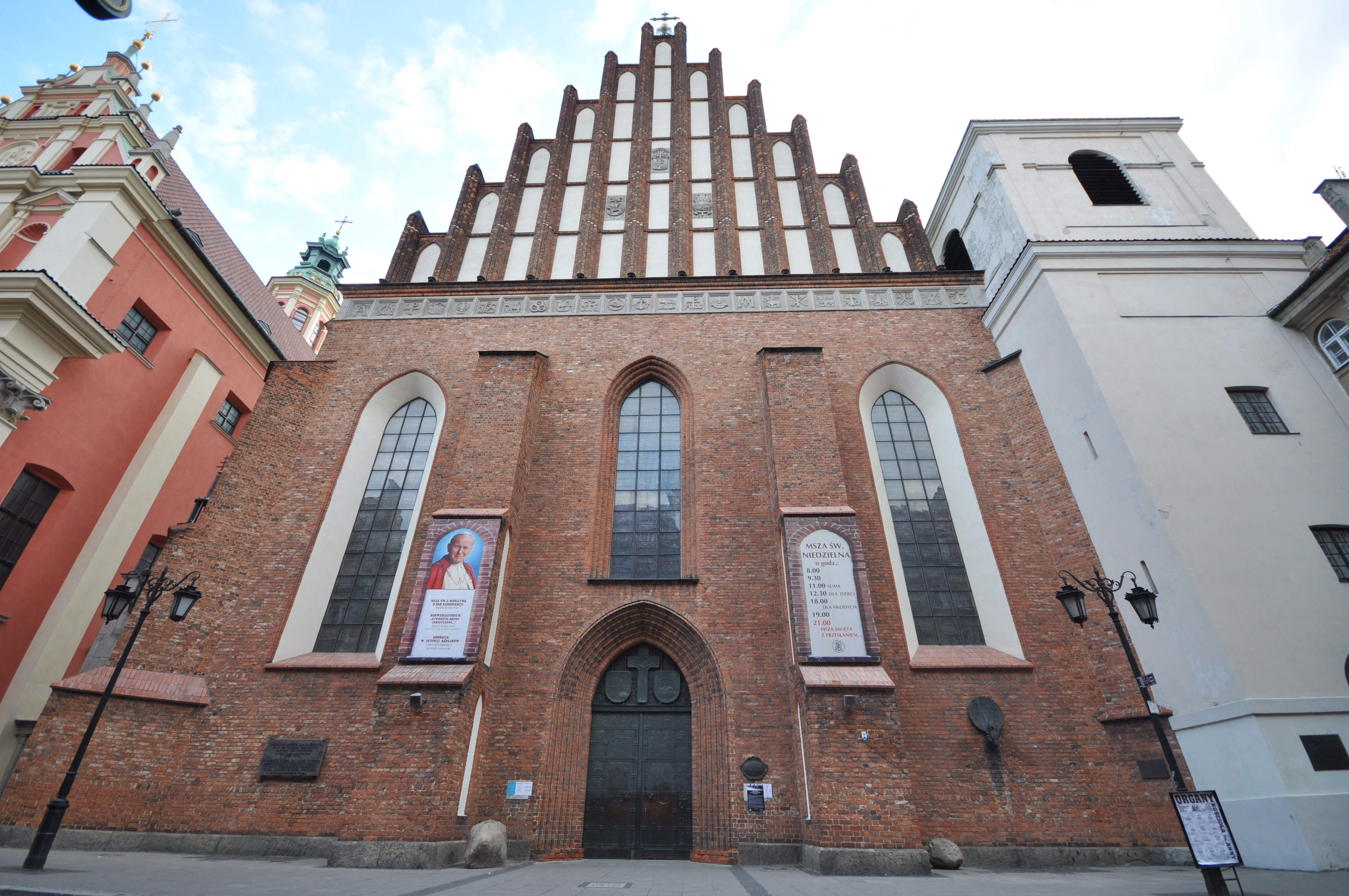 St. John's Archcathedral in Warsaw (Polish: Archikatedra św. Jana w Warszawie) is a Catholic church in Warsaw's Old Town. St. John's stands immediately adjacent to Warsaw's Jesuit church, and is one of the oldest churches in the city and the main church of the Warsaw archdiocese. It is one of three cathedrals in Warsaw, but the only one which is also an archcathedral. St. John's Archcathedral is one of Poland's national pantheons. Along with the city, the church has been listed by UNESCO as of cultural significance.